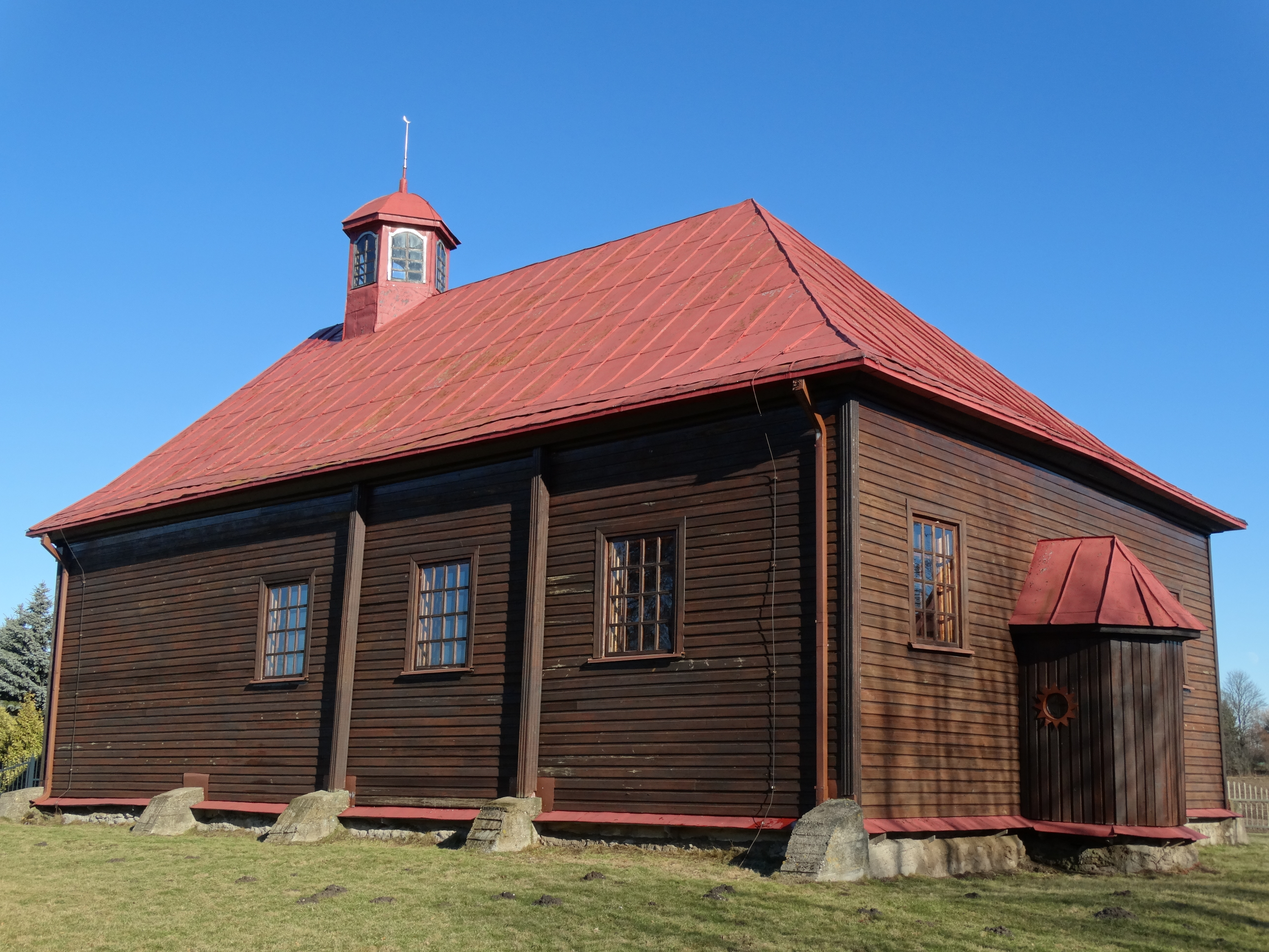 Mosque, Raižiai, Alytus district, Lithuania